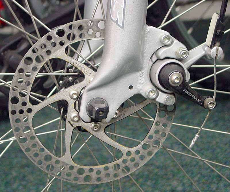 Bicycle front disk brake